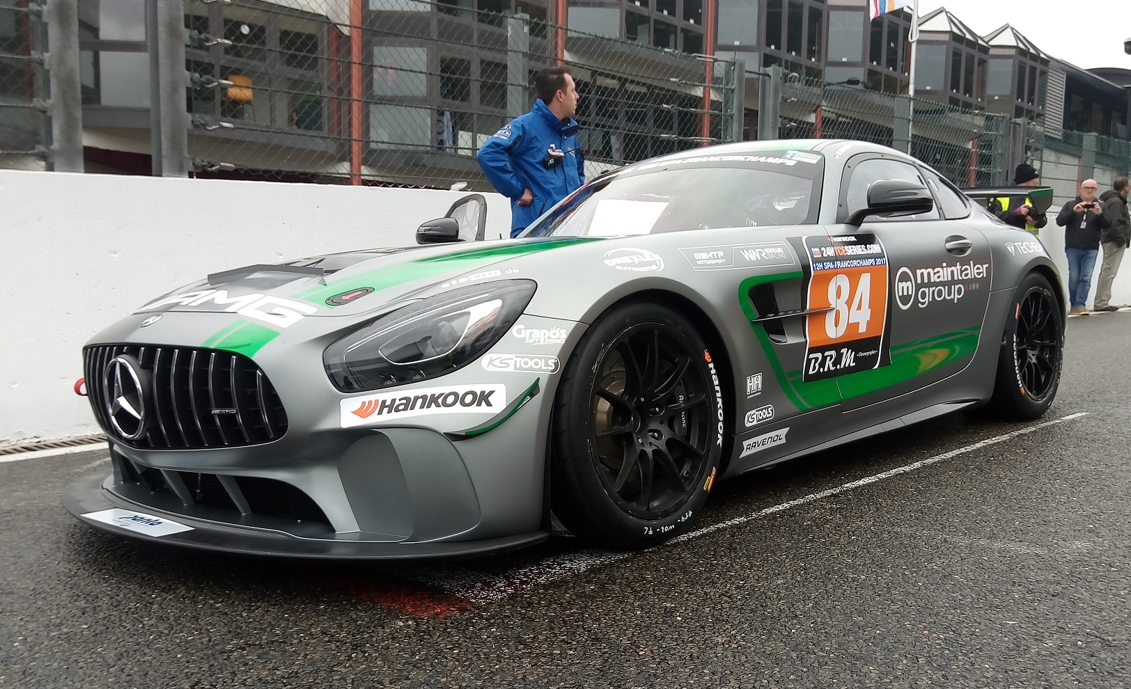 The Mercedes-AMG GT4 entered by HTP Motorsport in the 2017 12H Spa-Francorchamps. The car was raced by Bernd Schneider, Indy Dontje and Jörg Viebahn.